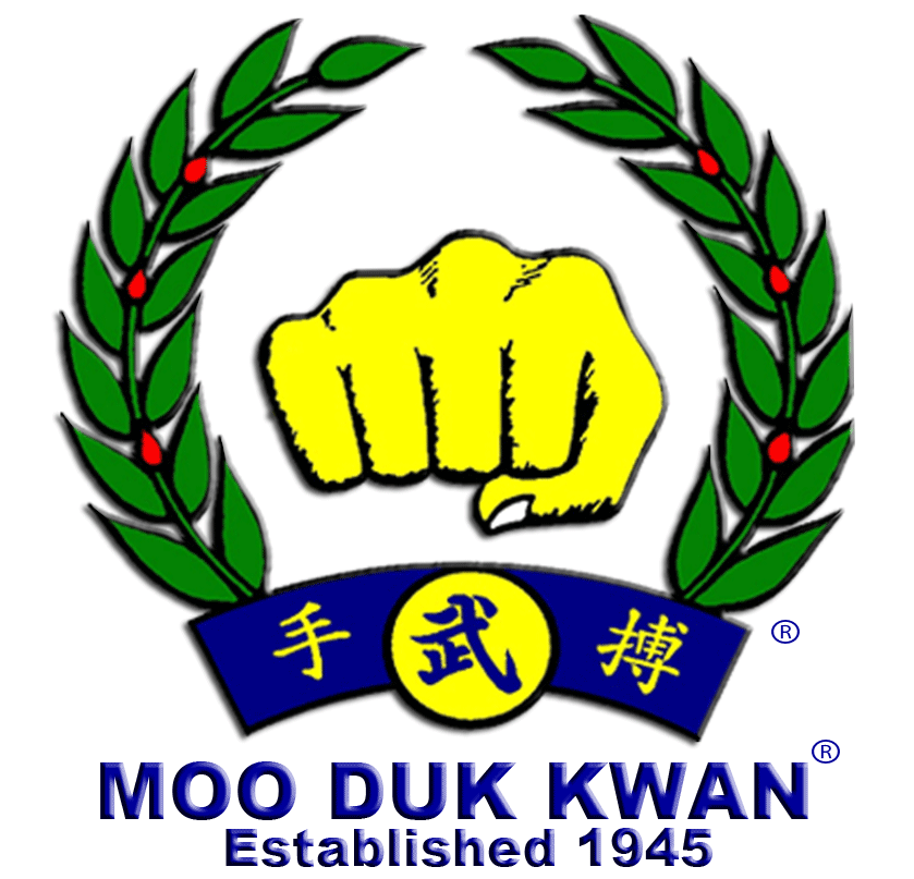 Original design created by Moo Duk Kwan Founder Hwang Kee in July 1955 in Korea to identify his authorized Moo Duk Kwan martial art schools. In 1974 he authorized the U.S. Tang Soo Do Moo Duk Kwan Federation as his sole licensing entity in the U.S.A. Today "Moo Duk Kwan" 3,023,145 and "the fist logo" 1,446,944 and 3,119,287 are federally registered trademarks of the U.S. Soo Bahk Do Moo Duk Kwan Federation recorded with the United States Patent and Trademark Office.